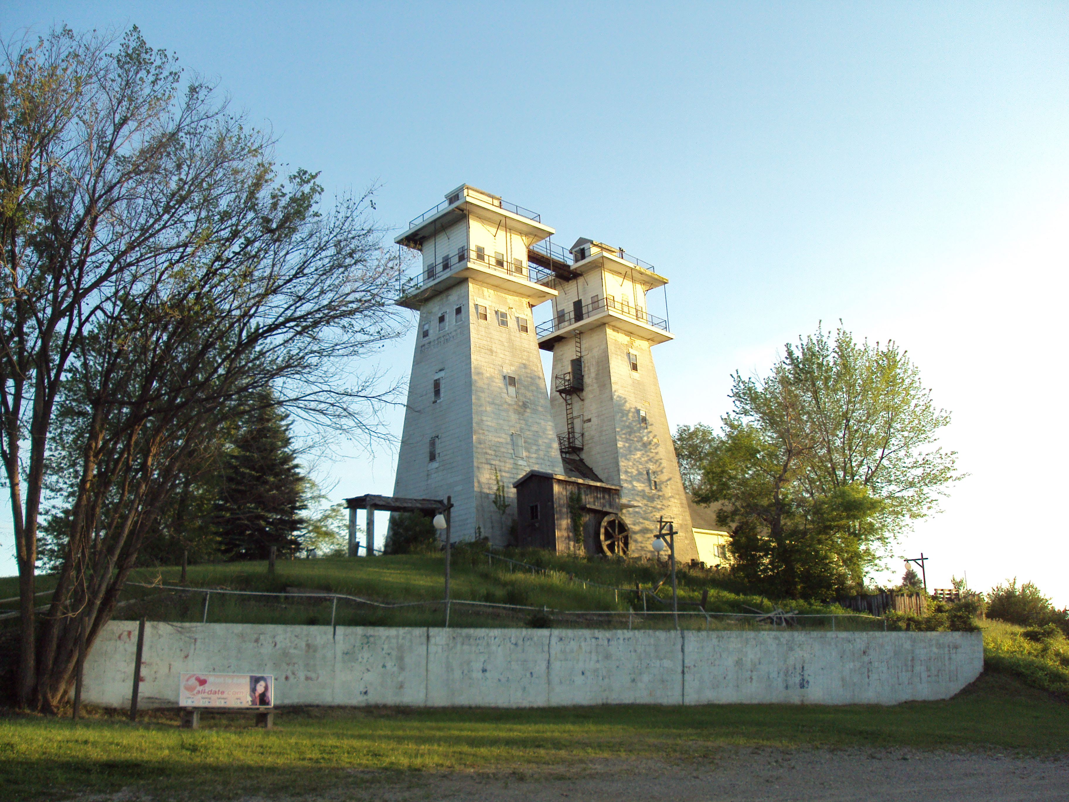 Twin Irish Hills Towers. Located in northern Lenawee County, Michigan in the Irish Hills region. On the National Register of Historic Places.